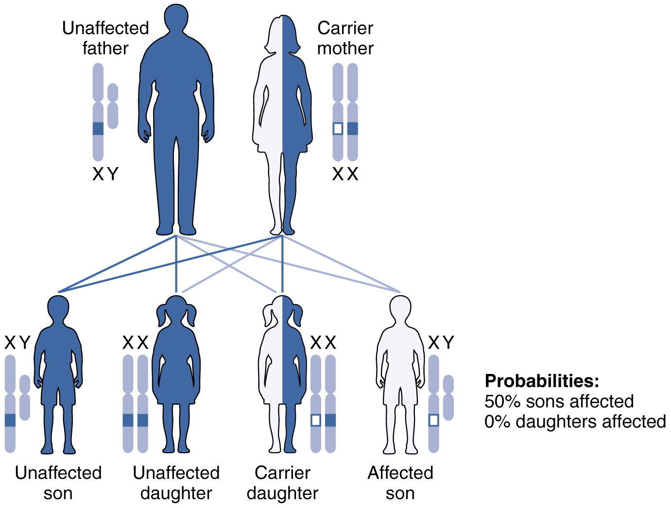 Illustration from Anatomy & Physiology, Connexions Web site. Jun 19, 2013.